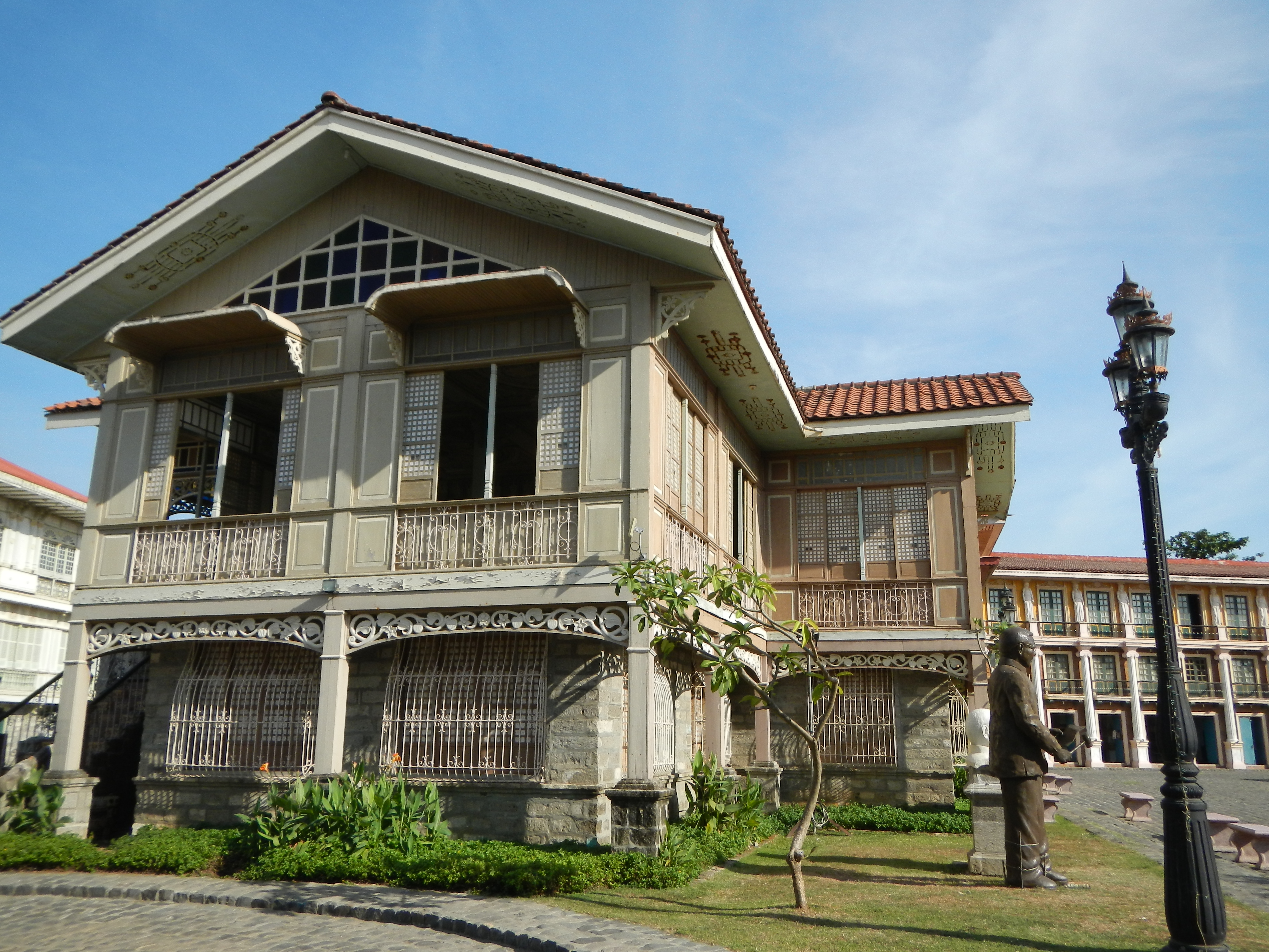 Las Casas Filipinas de Açúzar[1] [2] Website The Ciudad Real de Acuzar Heritage Park was the location of the TV Show Zorro of GMA Network.[3]. This is a heritage park built by José "Gerry" Acuzar, owner of the New San Jose Builders[4] and history art collector. [5] New San Jose Builders, Inc. is real estate company in the Philippines based in Quezon City. It is owned by Jose Acuzar, a veteran in the construction industry who have been involved in contracting government infrastructures prior to his venture in real estate. It is one of the few real estate companies in the Philippines to integrate shopping on all its projects. Inside this heritage park is a collection of Spanish Colonial buildings and stone houses (bahay na bato in Tagalog), planned to resemble a settlement reminiscent of the period. These houses were carefully transplanted from different parts of the Philippines and rehabilitated to their former splendor.[6] This place is situated in Bataan, Region 3, Philippines, its geographical coordinates are 14° 35' 53" North, 120° 23' 35" East and its original name (with diacritics) is Bagac.[7]Land Area: 231.20 km² ZIP Code: 2107 [8] Coordinates: 14°34'57"N 120°25'6"E [9] Bagac, Bataan[10] is a third class municipality in the province of Bataan[11], Philippines. According to the 2010 census, it has a population of 25,568 people. With an area of 23,120 hectares (231.2 km2), Bagac is the largest municipality in the province of Bataan. Bagac is off Exit 60 of Bataan Provincial Expressway.[12]